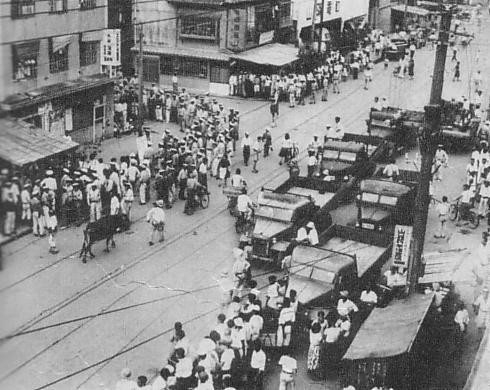 Shimonoseki Incident